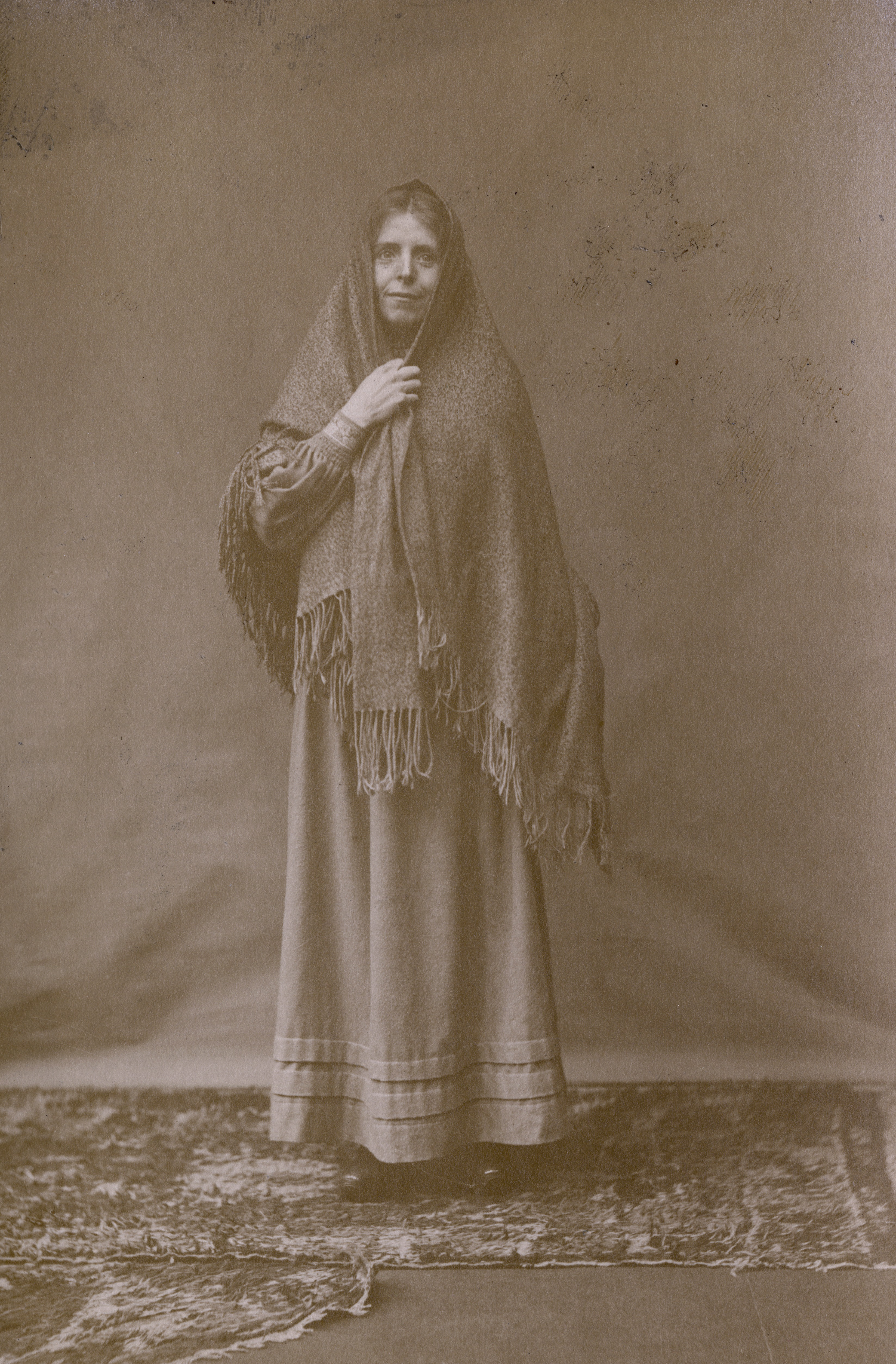 7JCC/O/02/137 Photograph, printed, paper, monochrome studio portrait of Annie Kenney dressed as a mill worker, mounted on card; autographed inscription below image 'Annie Kenney'